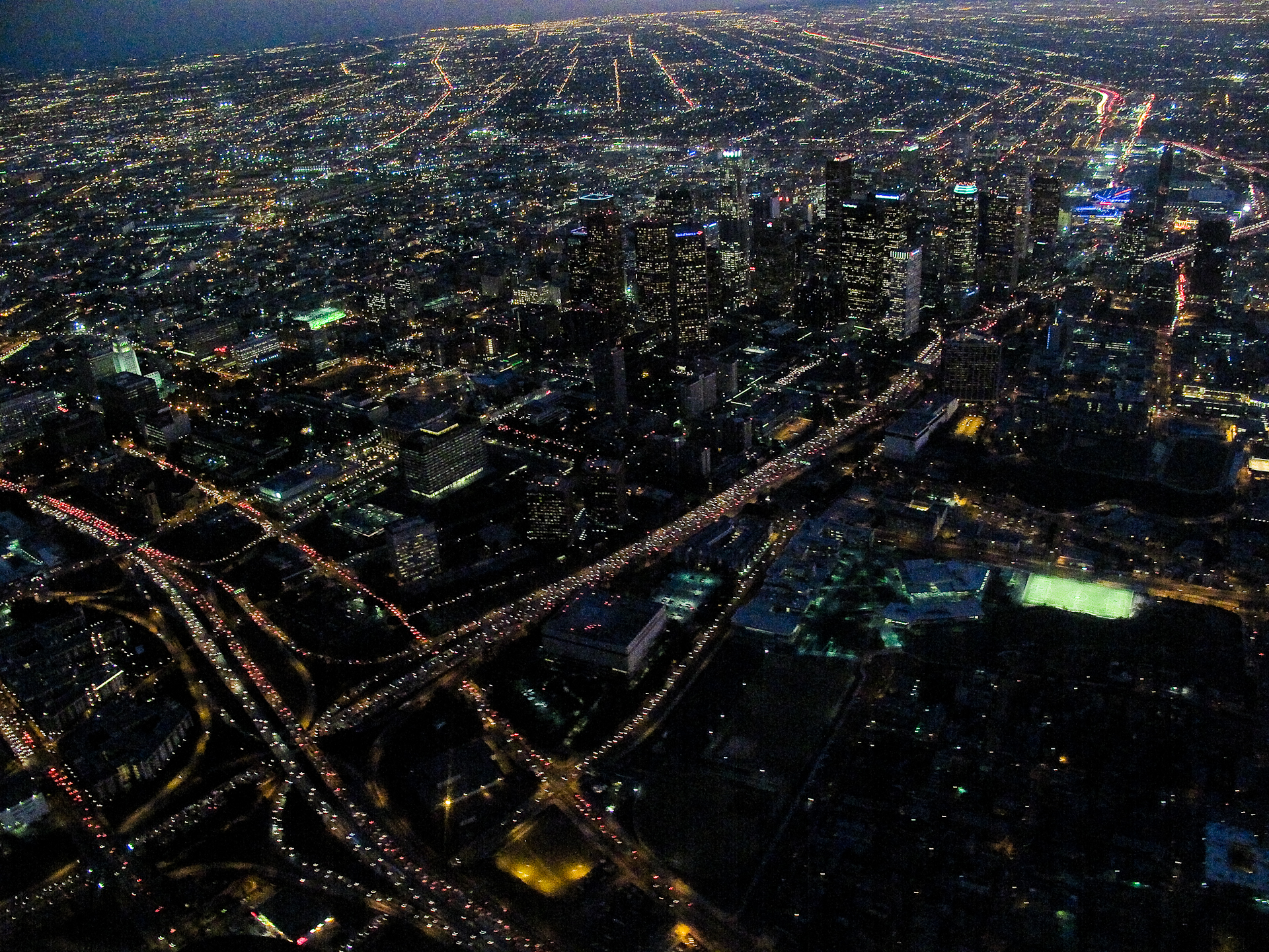 Downtown LA at night